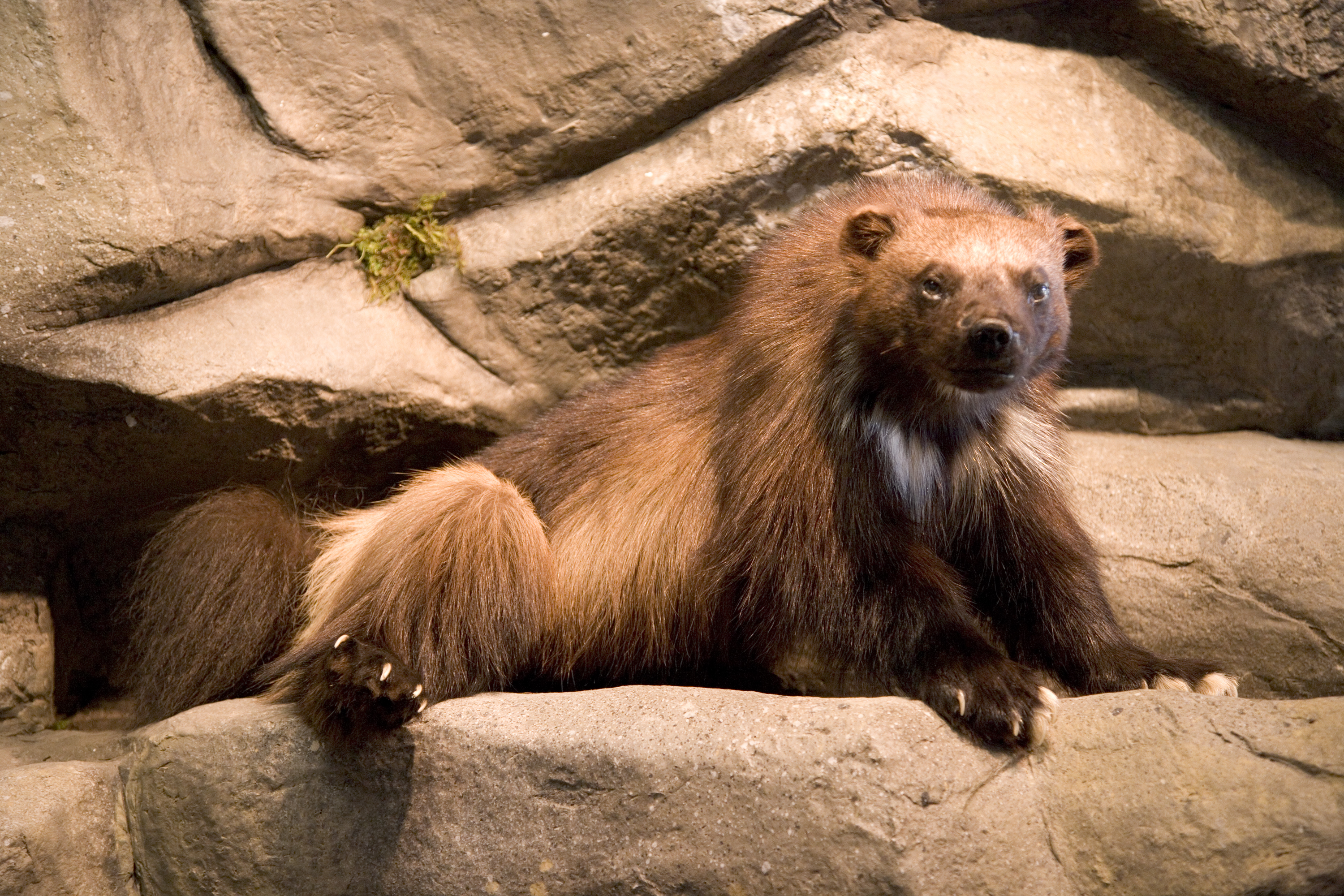 Wolverine display at Arctic Interagency Visitor Center at Coldfoot